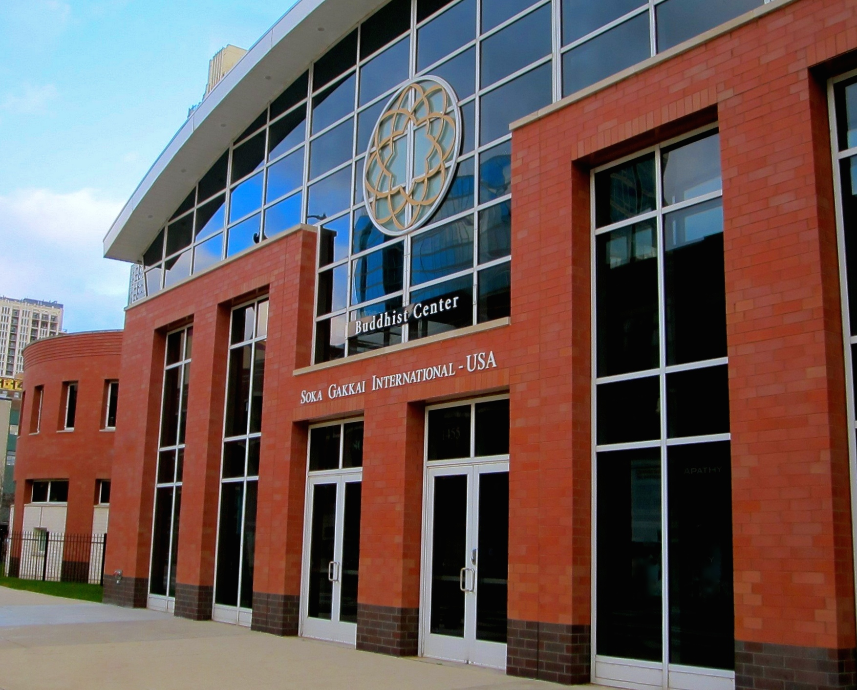 SGI-USA Chicago Culture Center (Soka Gakkai International)